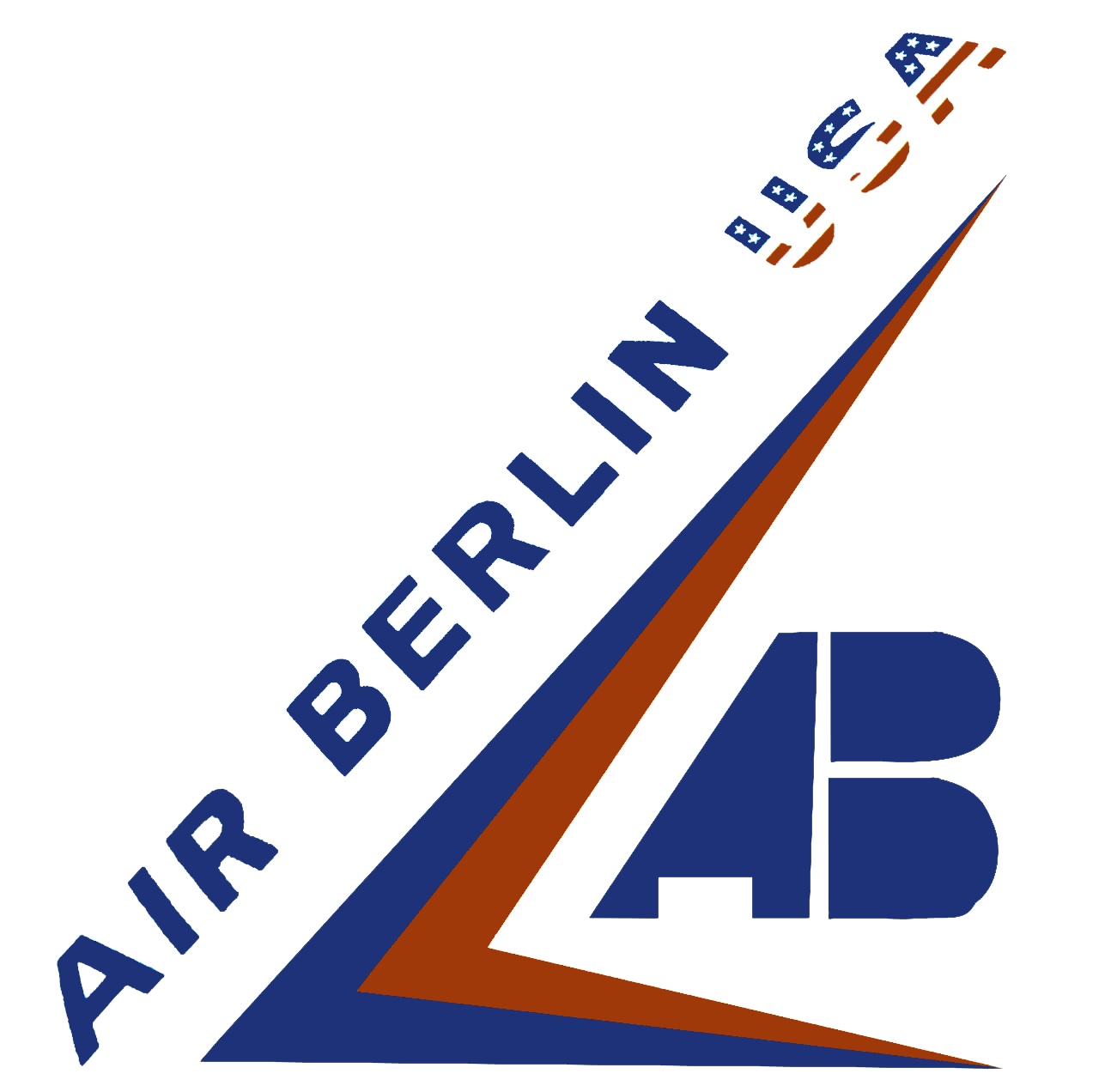 Logo Air Berlin USA in 1978/1979